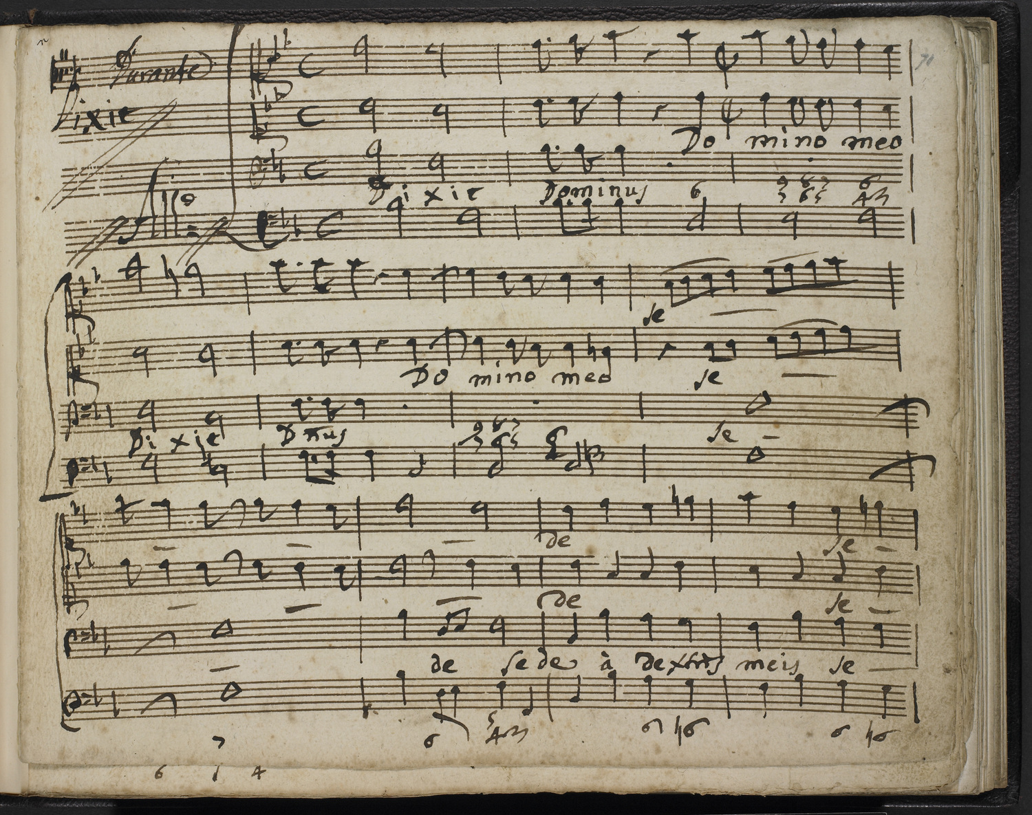 Dixit Dominus. In the composer's hand.